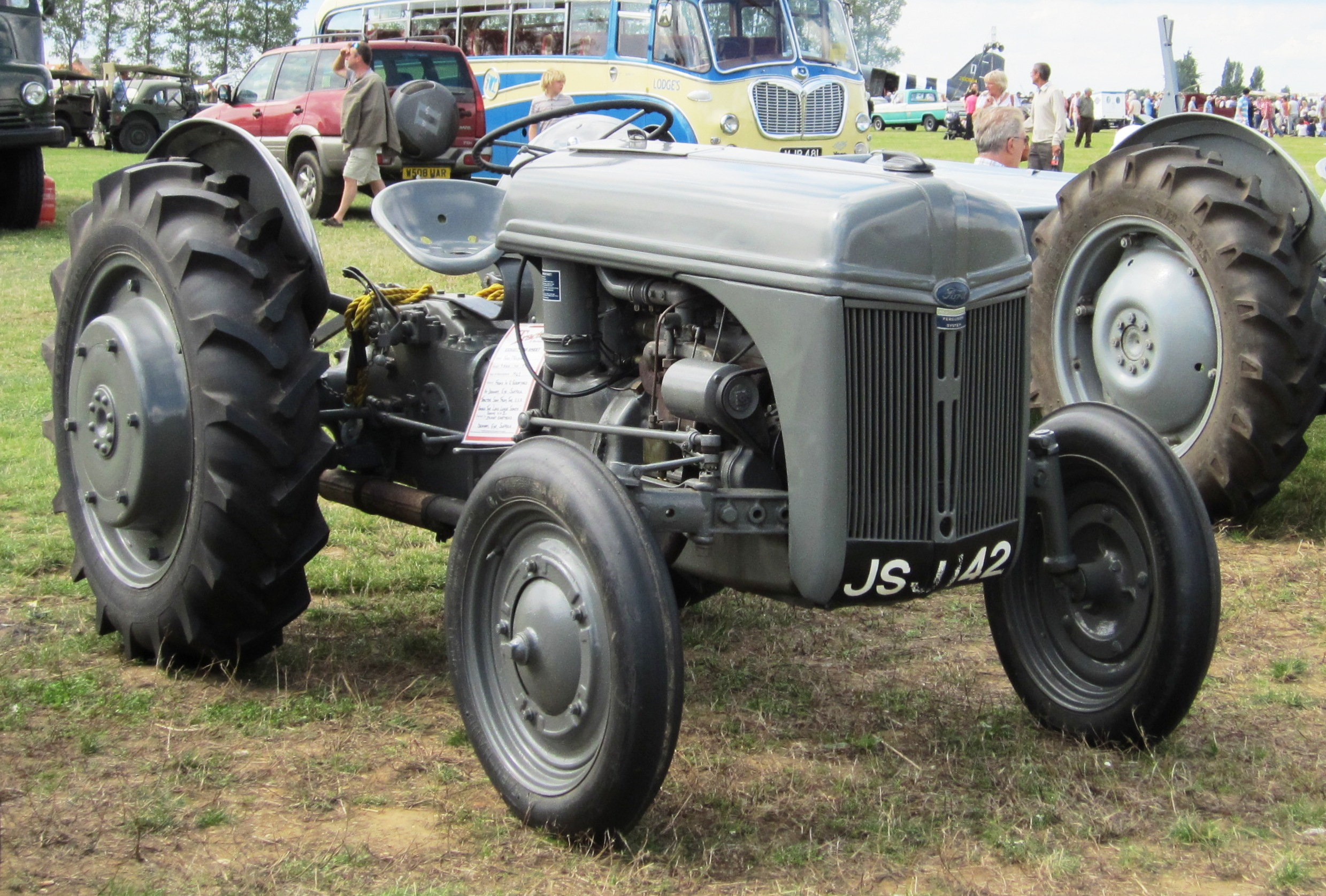 Fprd 9N tractor imported, according to exhibitor's notice from US to England as part of the so called "lend-lease" program in 1942